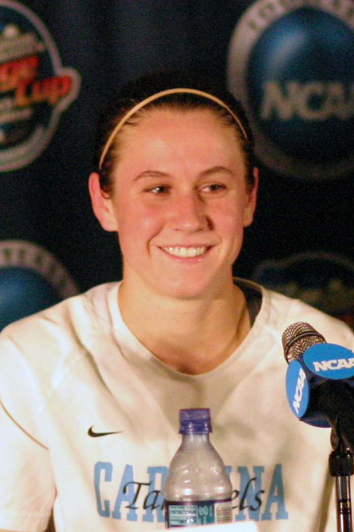 Heather O'Reilly of North Carolina Tar Heels and the United States after the 2006 College Cup semifinal